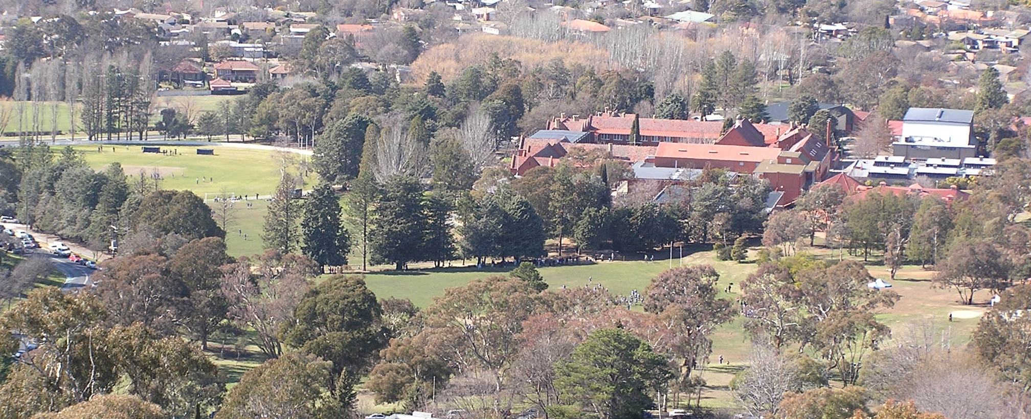 Canberra Grammar School viewed from Red Hill, Australian Capital Territory, Australia.